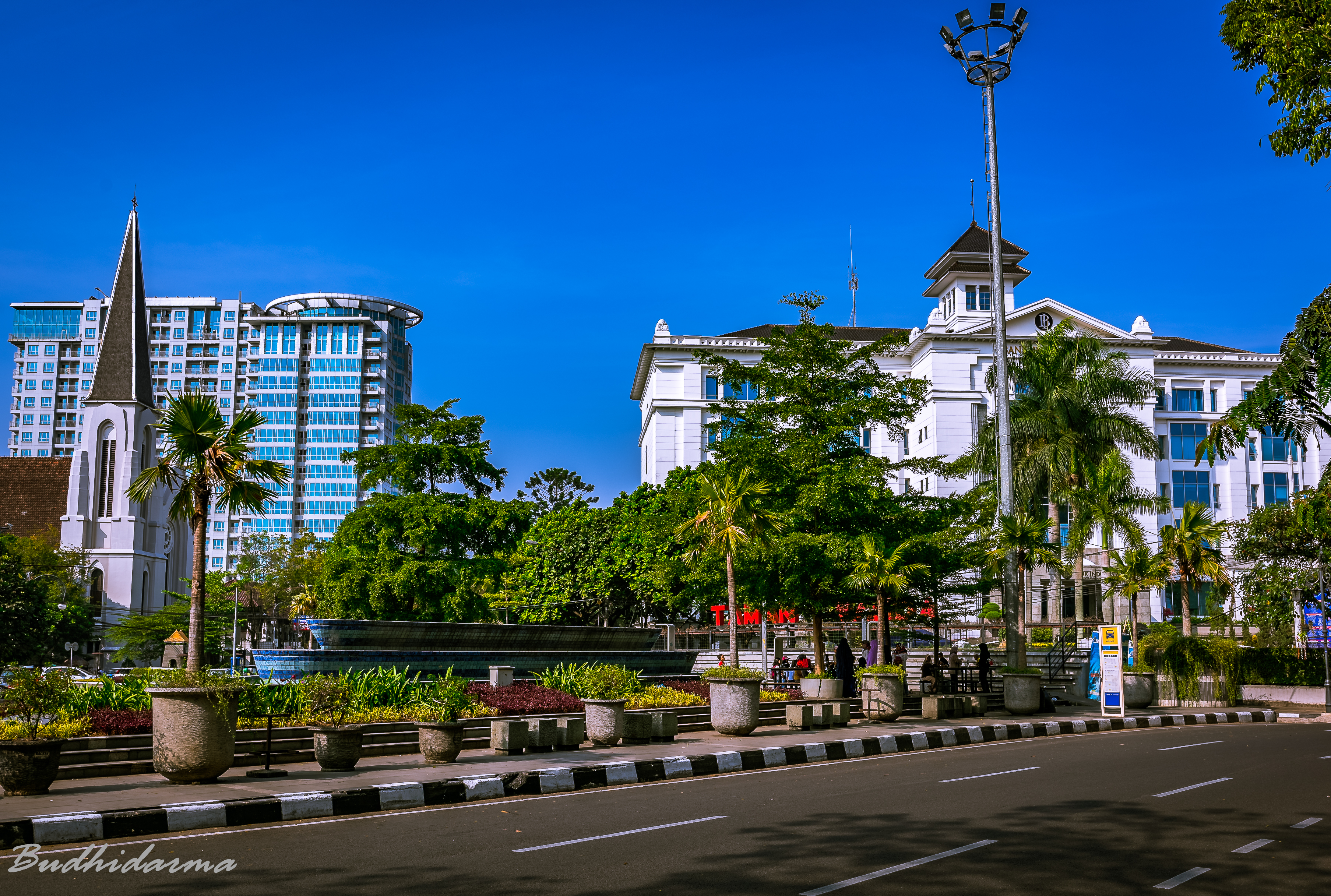 Bandung City West Java Indonesia